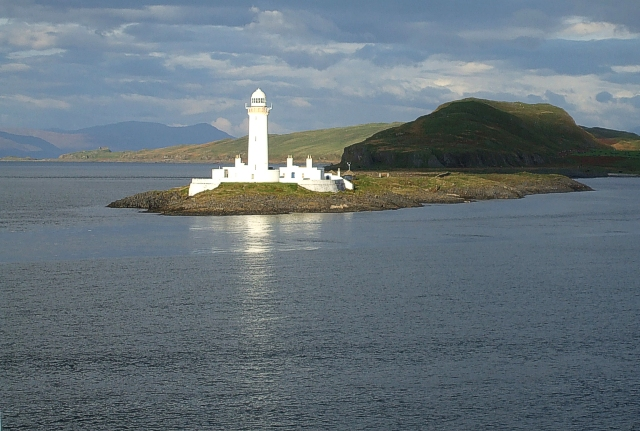 Lismore Lighthouse The tower and buildings of Lismore Lighthouse stand on Eilean Musdile, the islet off the southwestern tip of Lismore Island. This photo was taken from the CalMac ferry as we sailed to Craignure on Mull. The light is in the care of the Northern Lighthouse Board and its history can be read here